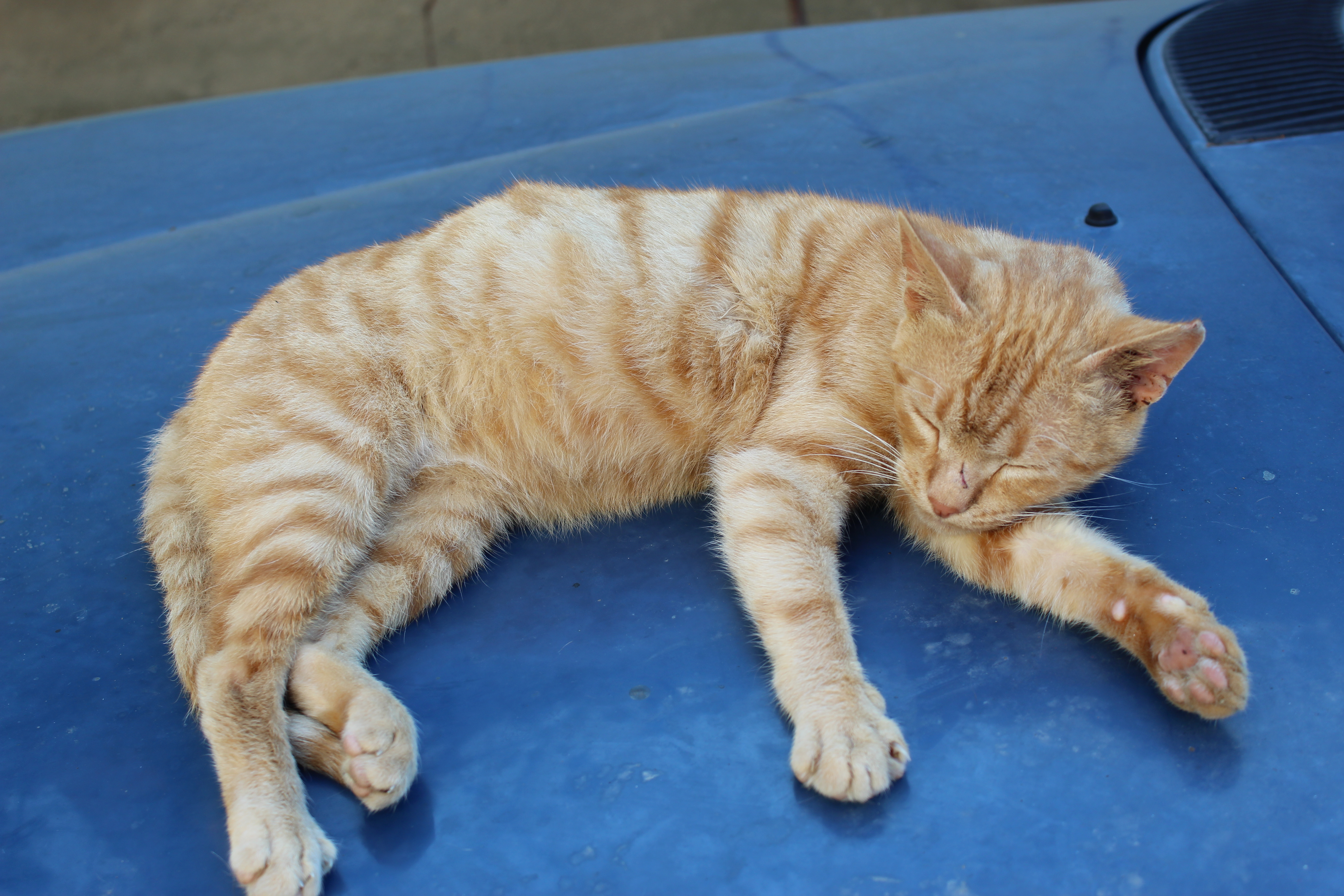 Orange cat sleeping